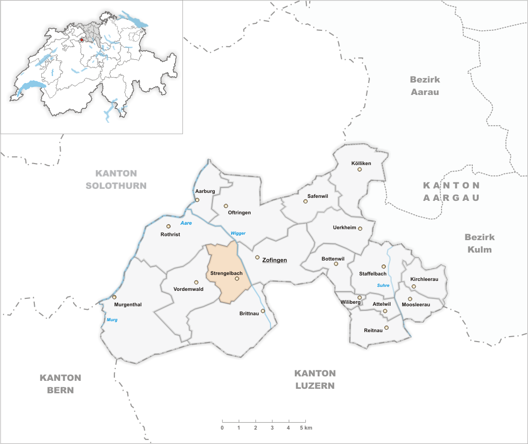 Municipality Strengelbach